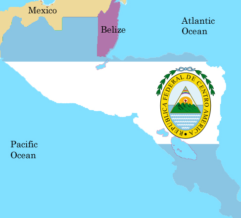 A flag map of the Federal Republic of Central America